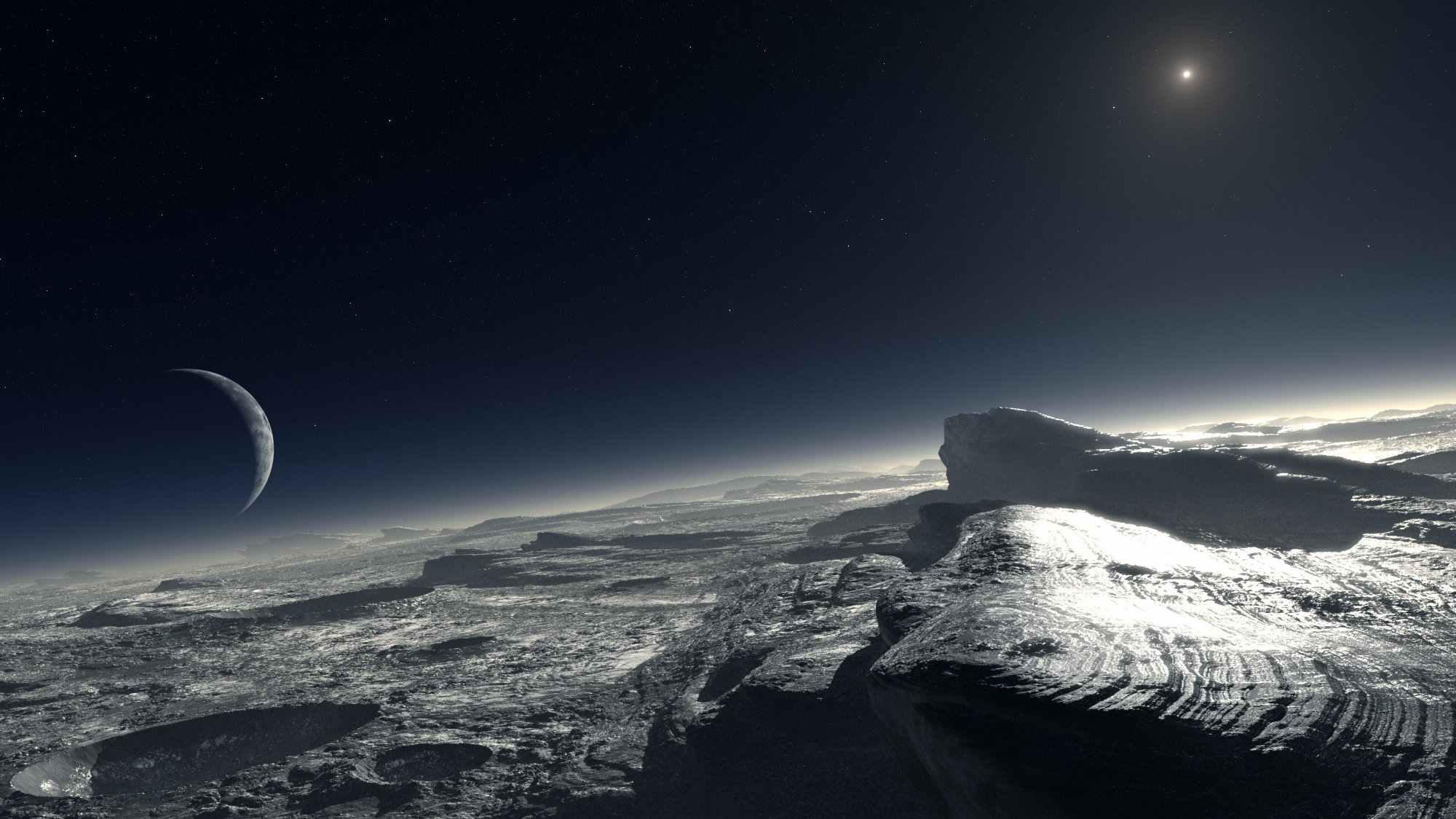 Artist’s impression of how the surface of Pluto might look, according to one of the two models that a team of astronomers has developed to account for the observed properties of Pluto’s atmosphere, as studied with CRIRES. The image shows patches of pure methane on the surface. At the distance of Pluto, the Sun appears about 1000 times fainter than on Earth.